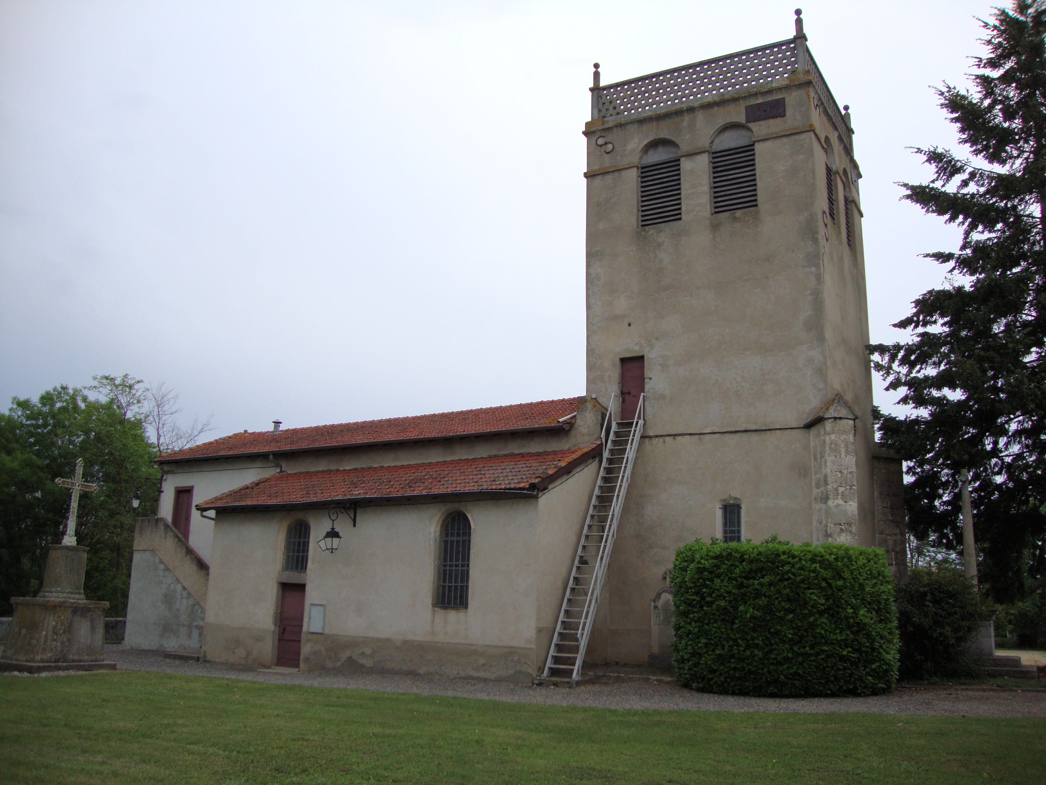 St.Laurent-la-Conche (Loire, Fr) church